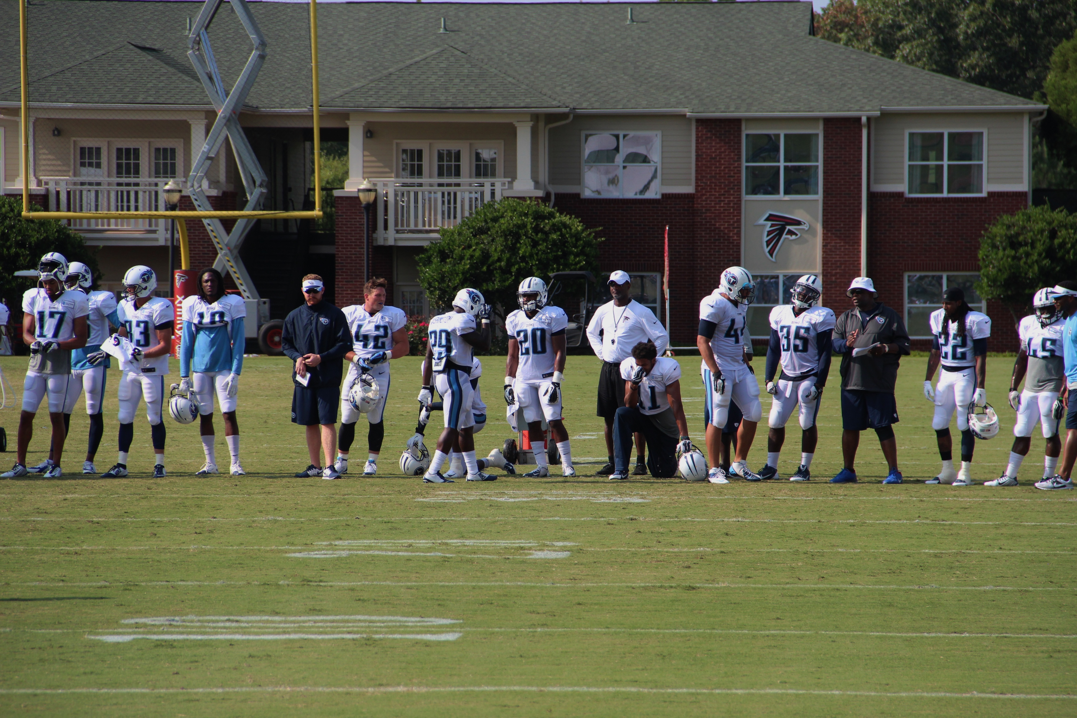 Wide receivers and running backs for the Tennessee Titans stand on the bench with their position coaches during a joint training camp with the Atlanta Falcons at Flowery Branch, Ga. on August 4, 2014. Left to right: Wide receivers Brian Robiskie (17), Marc Mariani (83), and Derel Walker (19), offensive assistant coach Luke Steckel, running backs Collin Mooney (42), Leon Washington (29), and Bishop Sankey (20), wide receiver Isaiah Williams (11), running backs Jackie Battle (44) and Antonio Andrews (35), running backs coach Sylvester Croom, and running backs Dexter McCluster (22) and Waymon James (45). Source: 2014 training camp roster